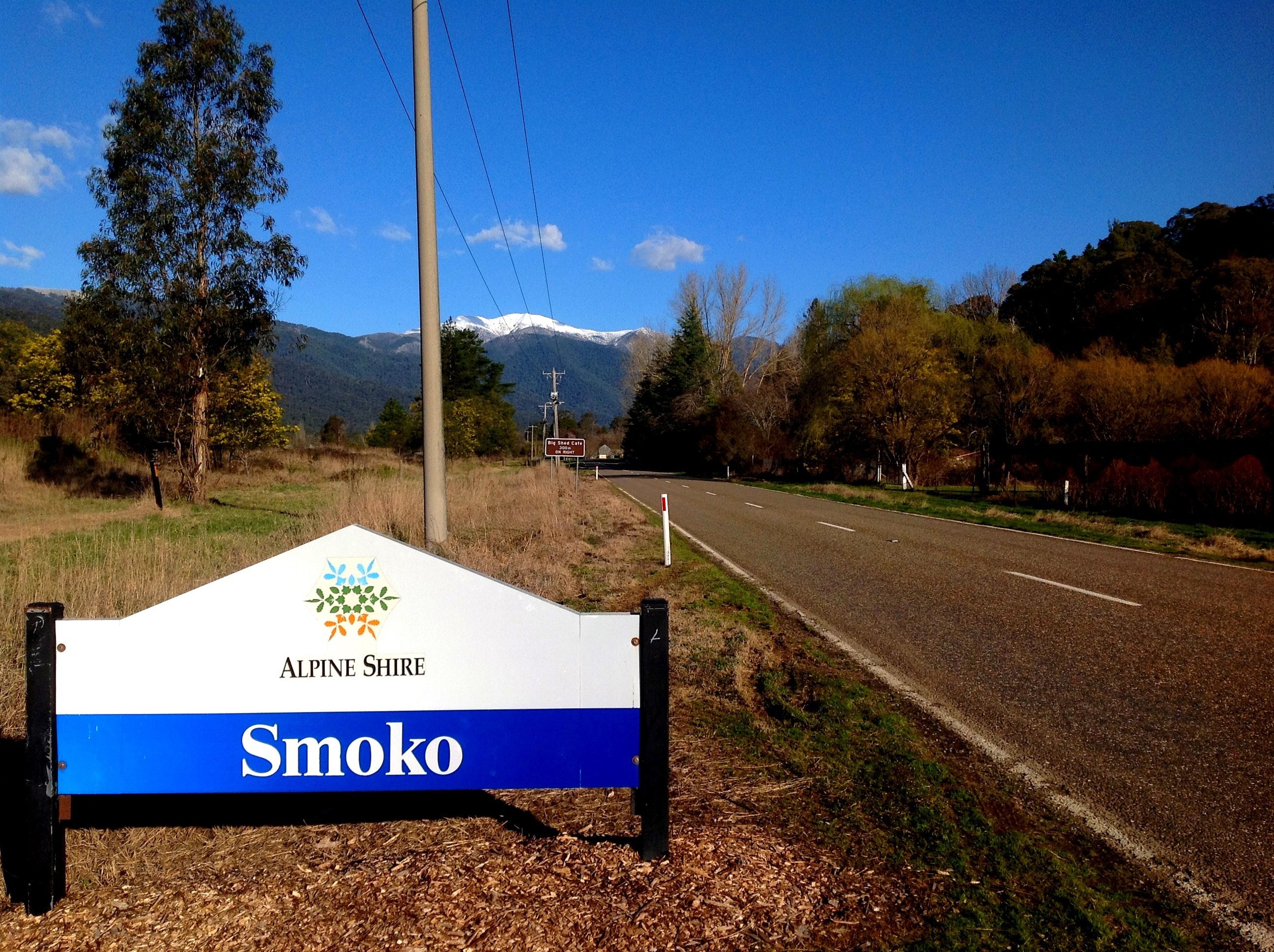 Smoko signage greeting view of the Victorian Alpine Region